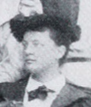 Biologist Esther F. Byrnes at the Marine Biological Laboratory in Woods Hole, Massachusetts